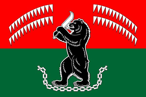 Flag of Kalevala urban settlement, Karelia, Russia